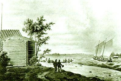 Alexander I of Russia and capitain Johan Junnelius on the lake Oulujärvi